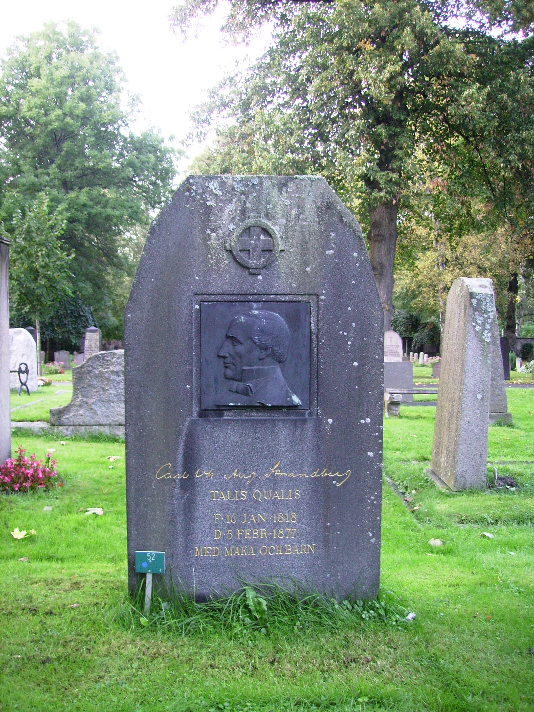 Picture of C. V. Strandberg's grave at Solna kyrkogård